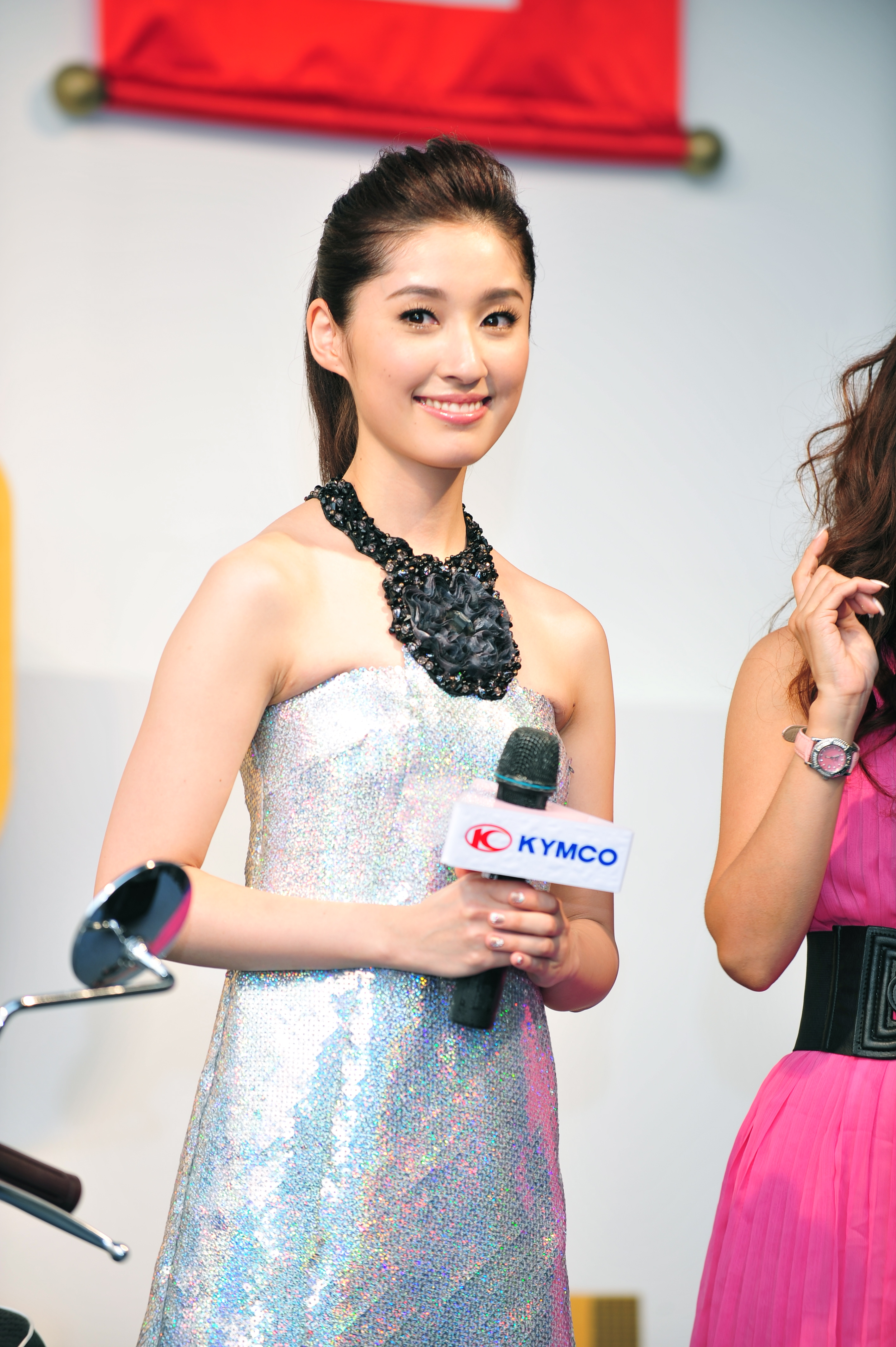 Chie Tanaka endorse KYMCO mini scooter